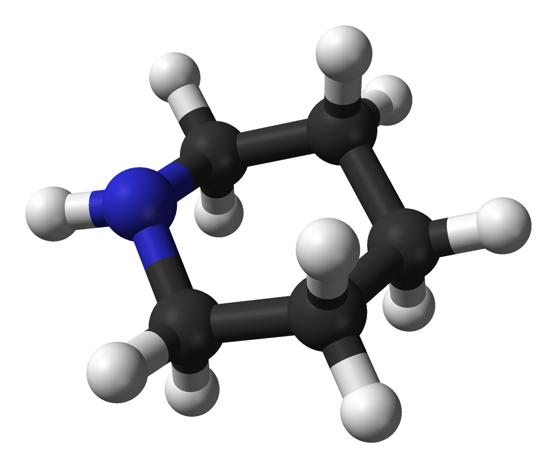 Ball-and-stick model of the piperidine molecule, C5H11N, in the equatorial conformation. Structure calculated in Spartan '04 Student Edition using Hartree-Fock/6-31G*. Image generated in Accelrys DS Visualizer.